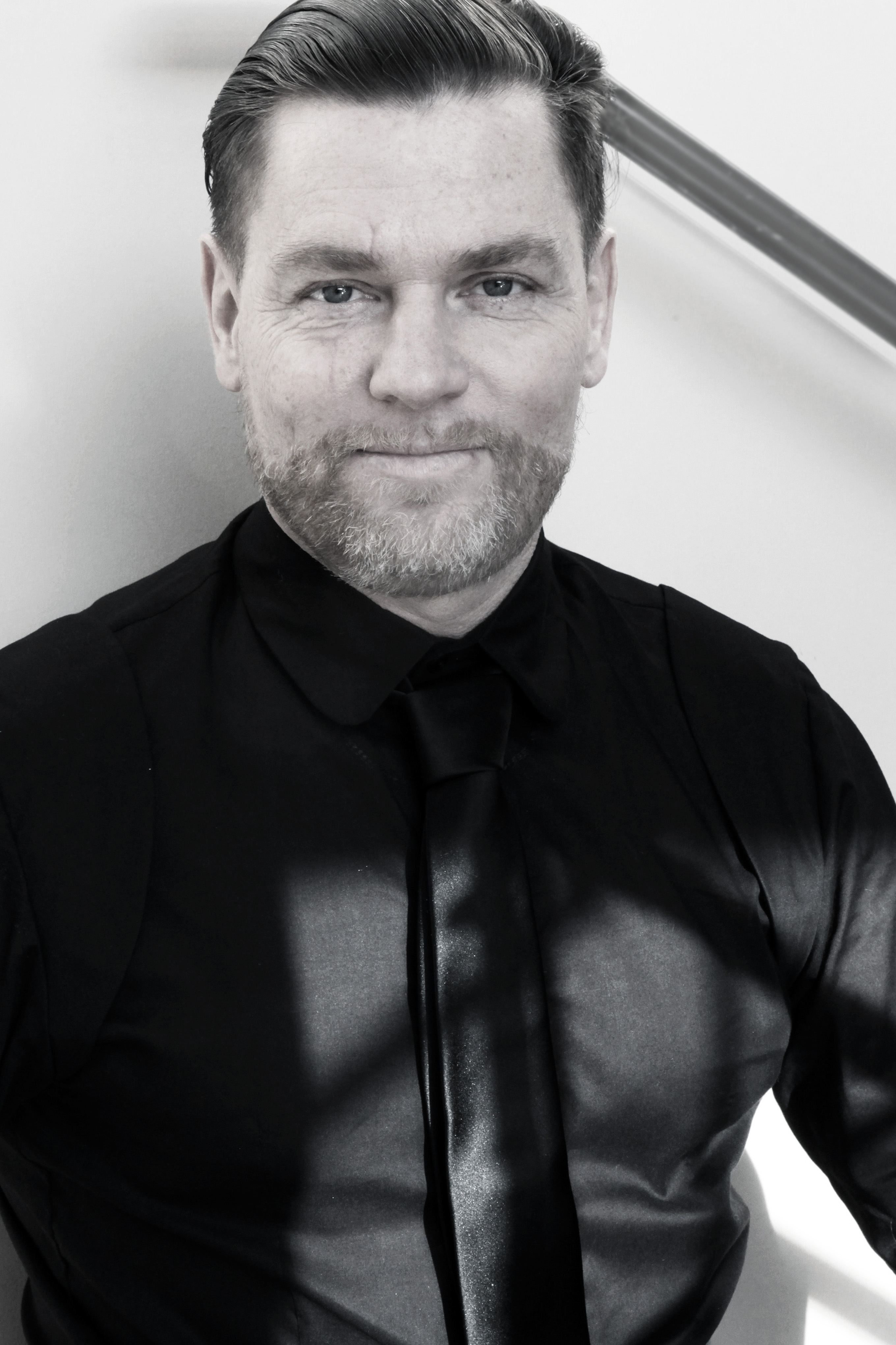 August Weizenegger photographed by Dorothea Tuch